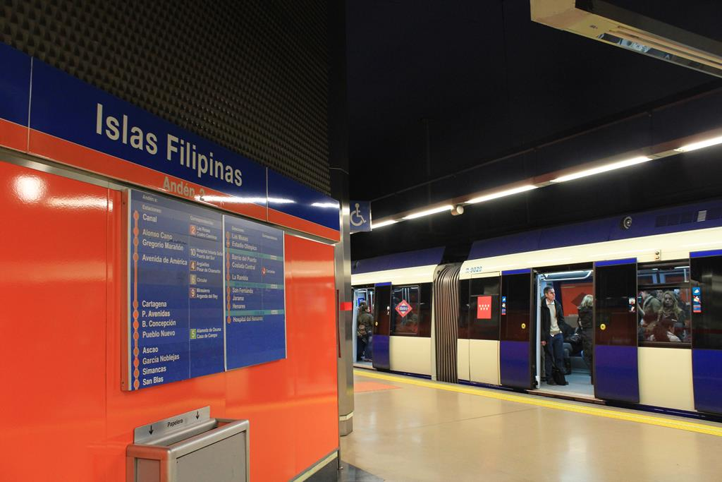 Islas Filipinas station (platform view) on line 7 of the Madrid Metro